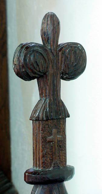 St Peter, Neatishead, Norfolk - Poppyhead